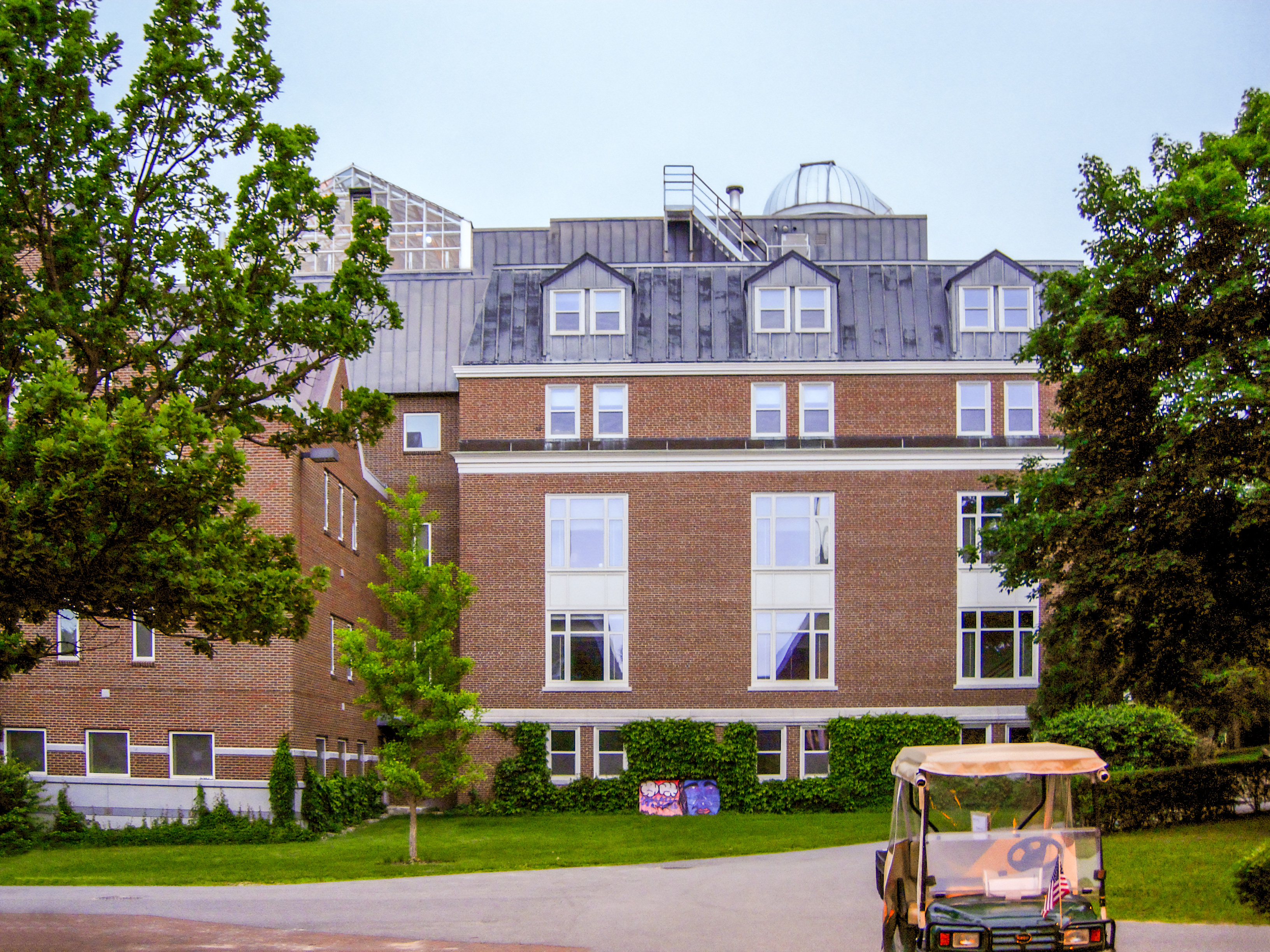 A picture of the Stephens Observatory atop the Carnegie Science building at Bates College in Lewiston, Maine.